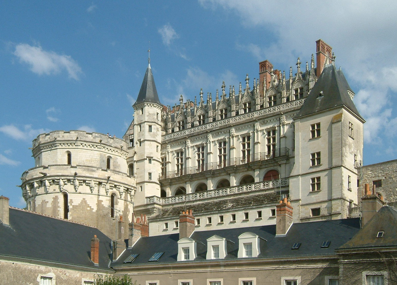 Amboise castle, Amboise, FRANCE